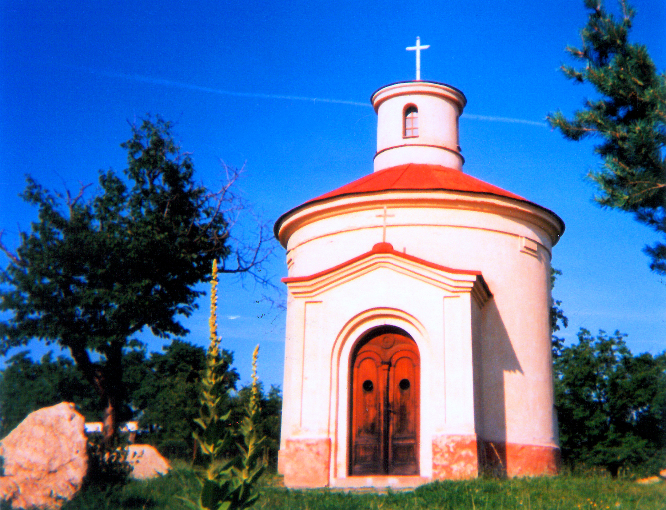 Chaple near Újezd u Brna, Brno-Country District, Czech Republic.